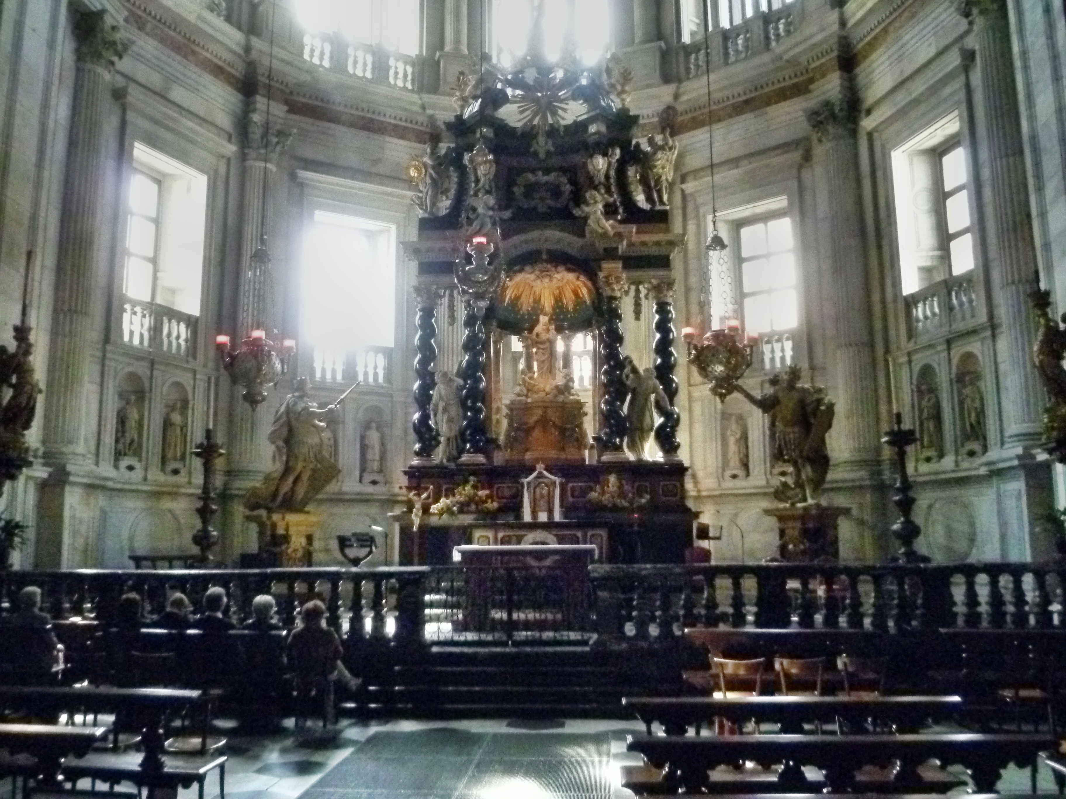 Altar of Our Lady of the Assumption (1686) in Baroque style, designed by Francesco Maria Richini; the model was made by Raymondo Ferabosco in 1641; right transept of the Como Duomo, Como, Italy